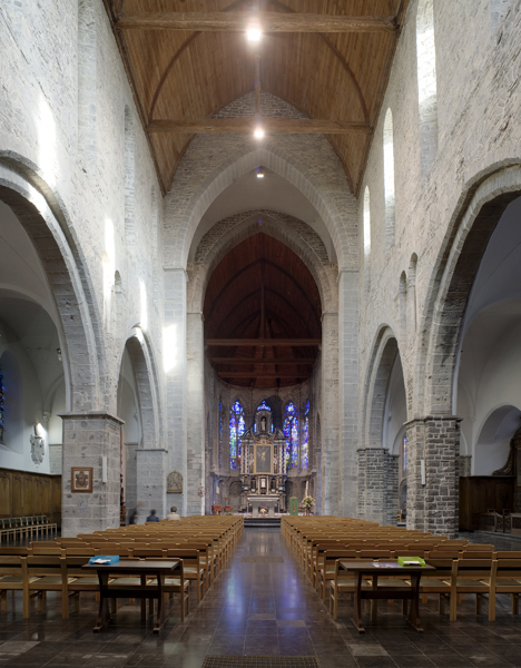 église Saint-Piat; Tournai; Hainaut, Belgium; ref: PM_036073_B_Tournai; ; XIIe; Photographer: Paul M.R. Maeyaert; © Paul M.R. Maeyaert; ; Cultural heritage; Europe/Belgium/Tournai-Doornik